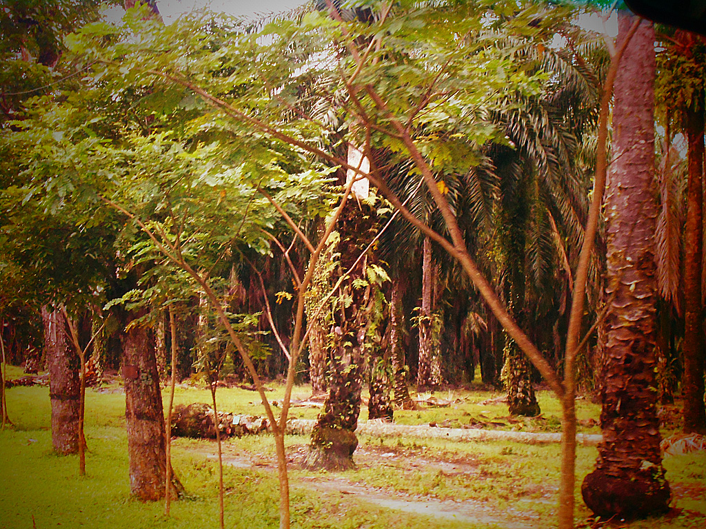 Inside of Palm Oil Estate of Serdang Bedagai